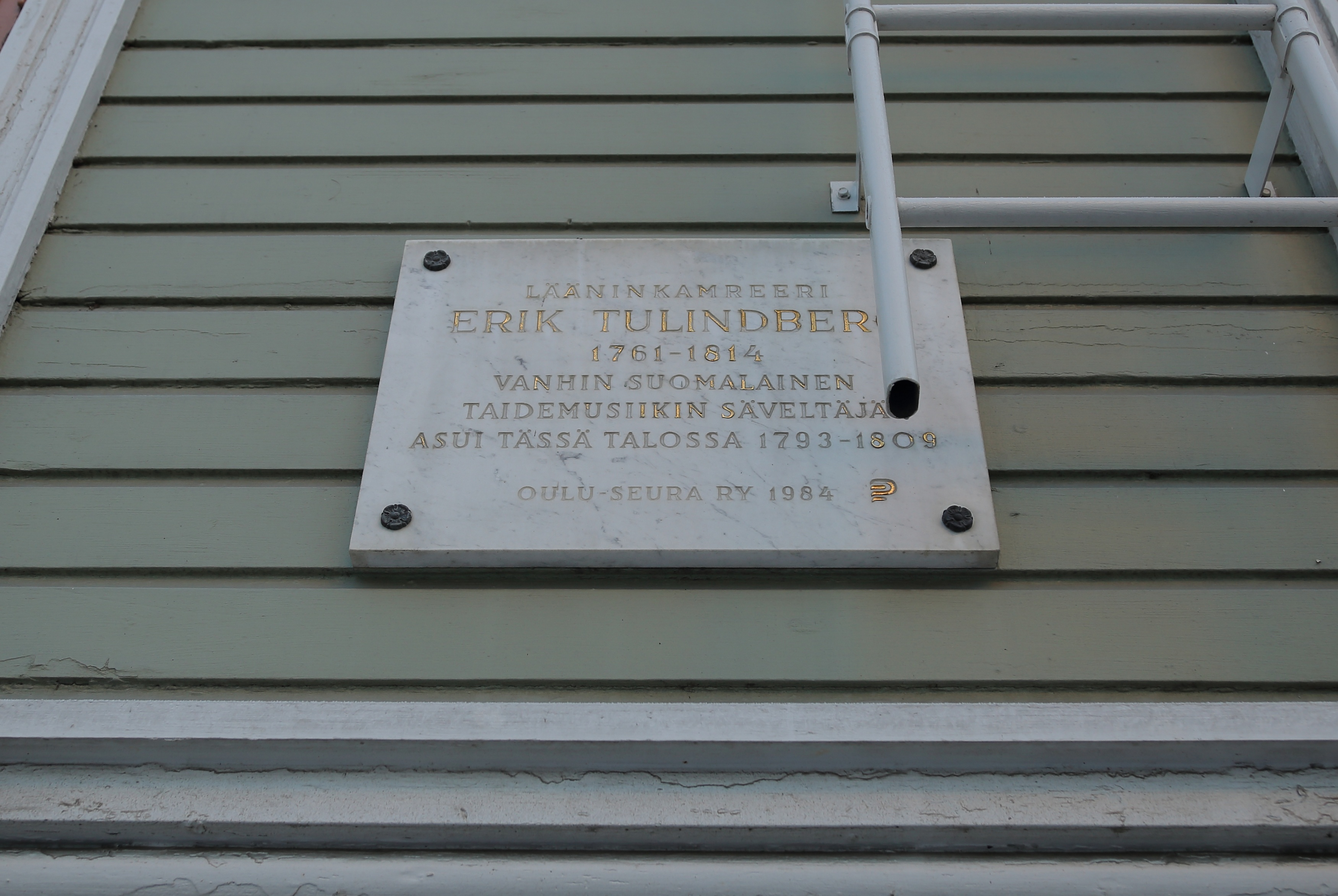 A here-lived plaque for the composer Erik Tulindberg on the wall of the Snellman house.